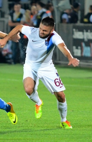 Fatih atik Playing of Trabzonspor